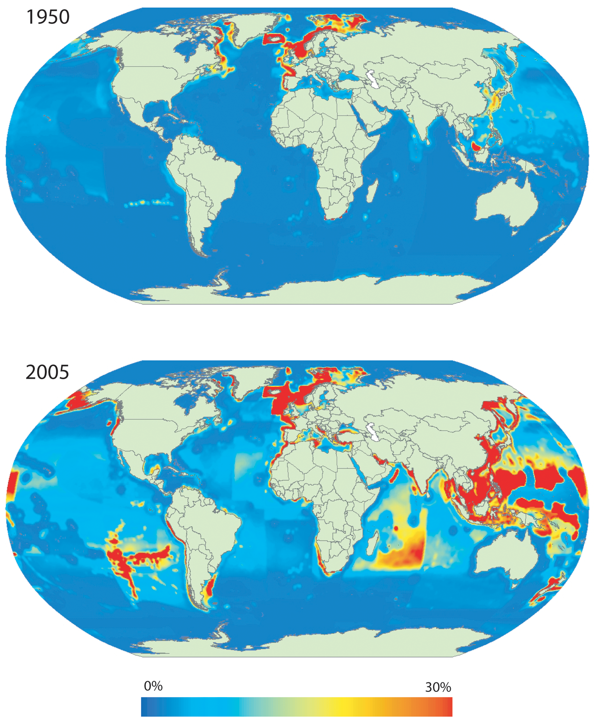 Primary production required (PPR) to sustain global marine fisheries landings expressed as percentage of local primary production (PP). Estimates of PPR, PP and PPR/PP computed per 0.5° latitude/longitude ocean cells. PPR estimates based on the [ Sea Around Us] catch database and PP estimates derived from SeaWiFS's global ocean colour satellite data. The maps represent total annual landings for 1950 (top) and 2005 (bottom). Note that PP estimates are static and derived from the synoptic observation for 1998. See: Swartz, W., Sala, E., Tracey, S., Watson, R. and Pauly, D., 2010. "The spatial expansion and ecological footprint of fisheries (1950 to present)". PloS one, 5 (12): e15143.